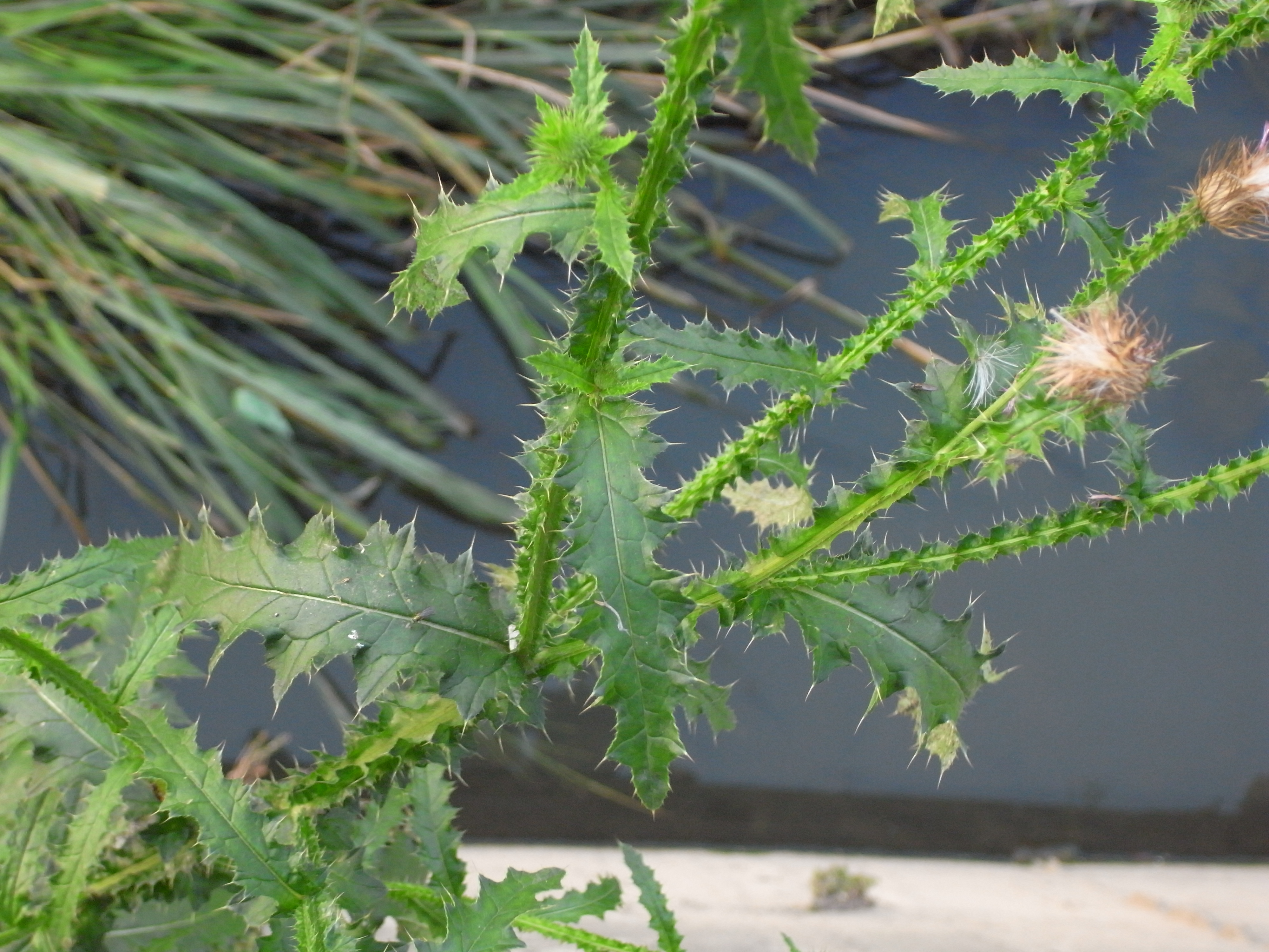 Carduus crispus